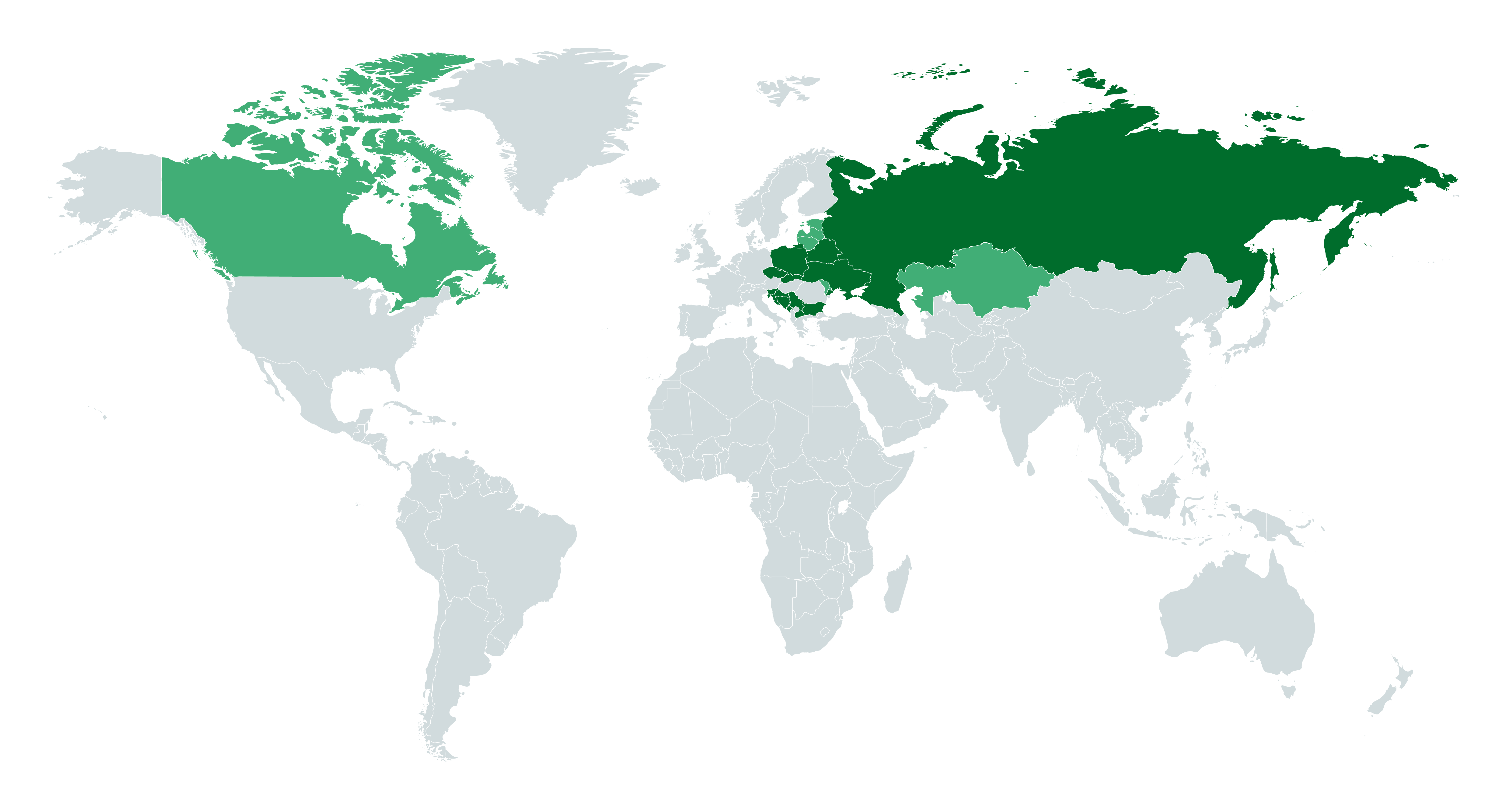 Countries with significant Slavic populations. 50%+ in dark green, 10%+ in light green